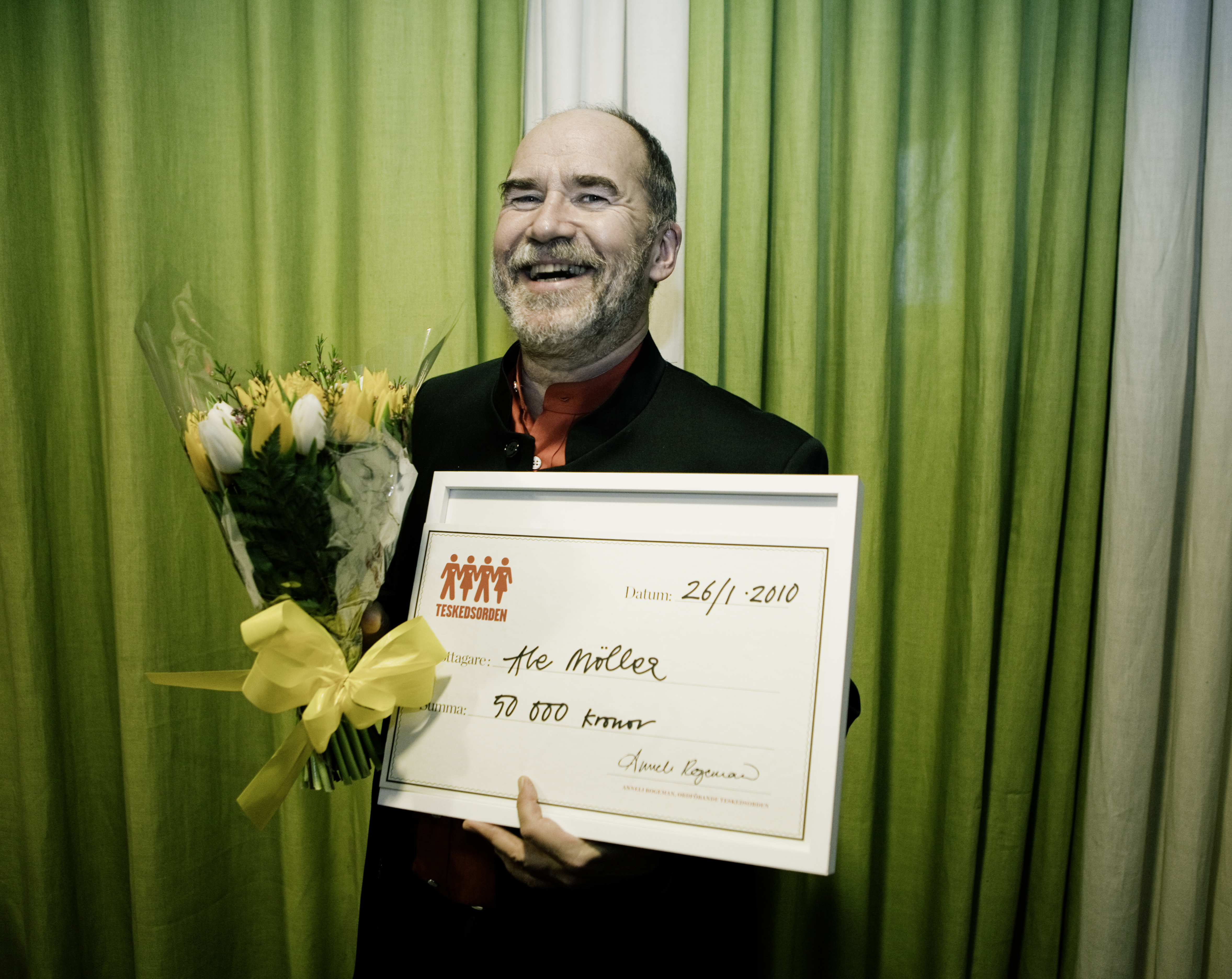 Musician Ale Möller receives Teskedsstipendiet, 2009